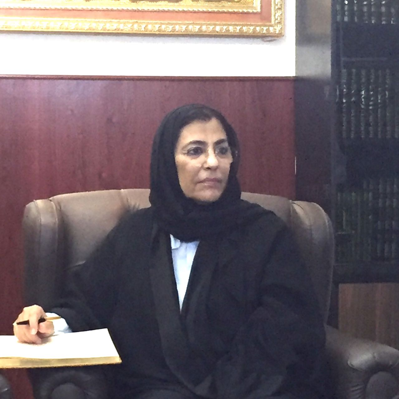 This is a self-portrait photo of HRH Princess Fahda bint Saud bin Abdulaziz during a visit to a local orphanage